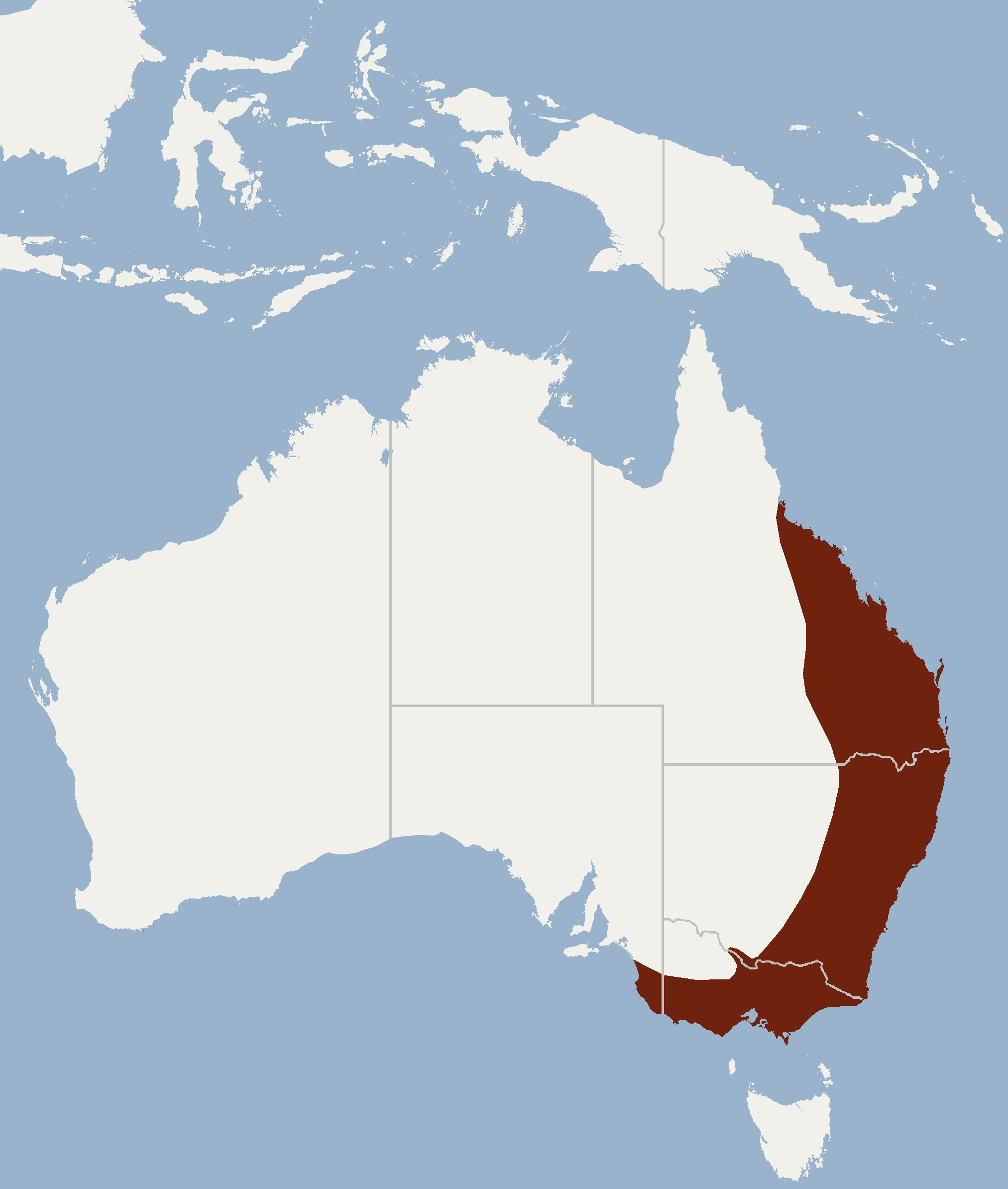 According to Menkhorst & Knight, 2001